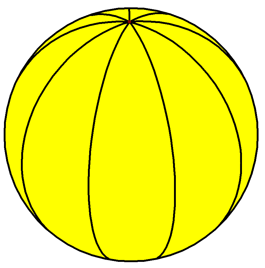 Spherical polyhedron